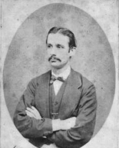 Alfonso, Count of Caserta